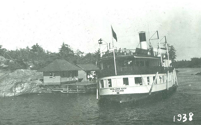 SS Midland City docked at Go Home Landing, Georgian Bay